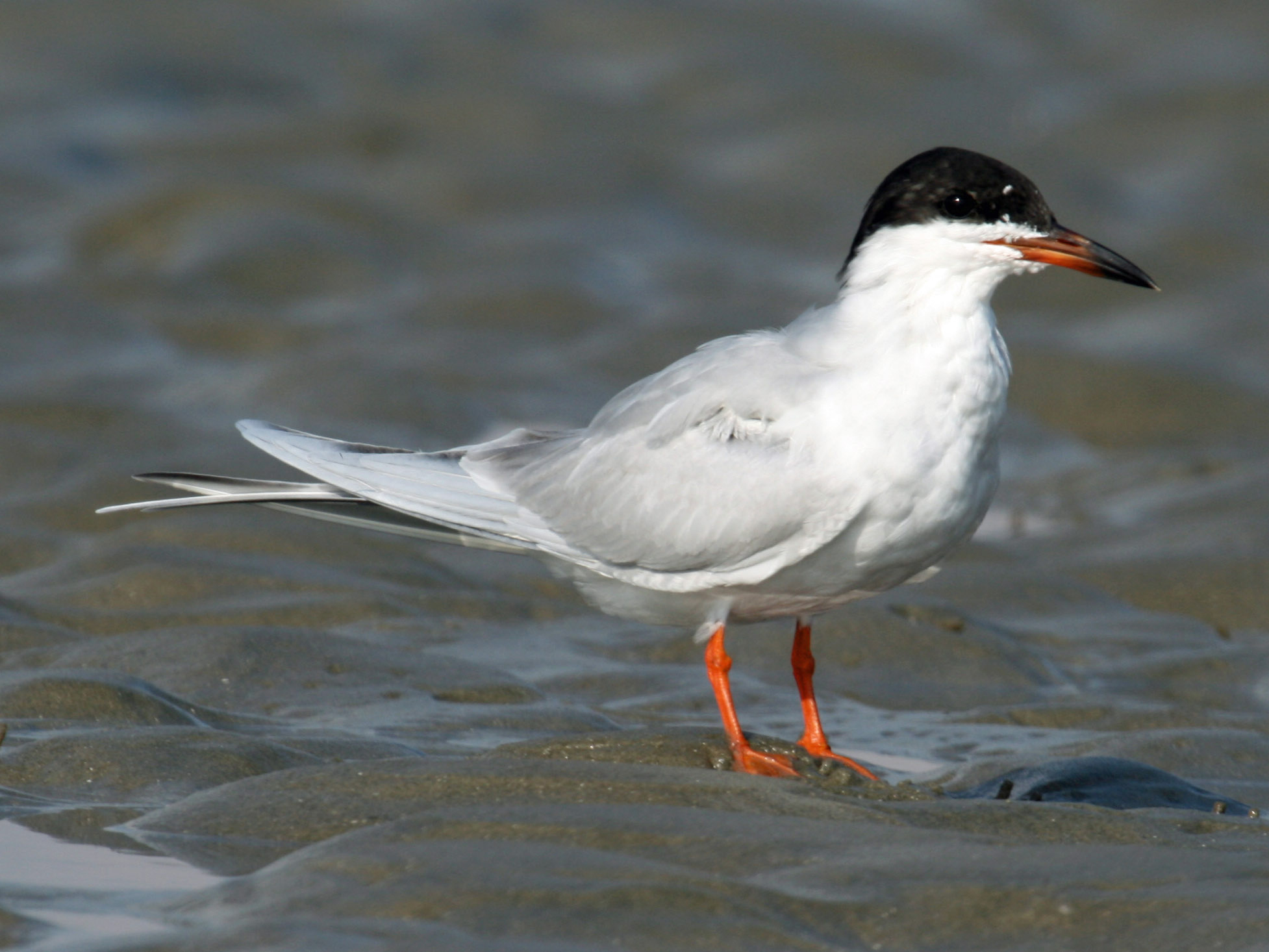 Forster's Tern (Sterna forsteri) in breeding plumage at Sunset Beach, North Carolina